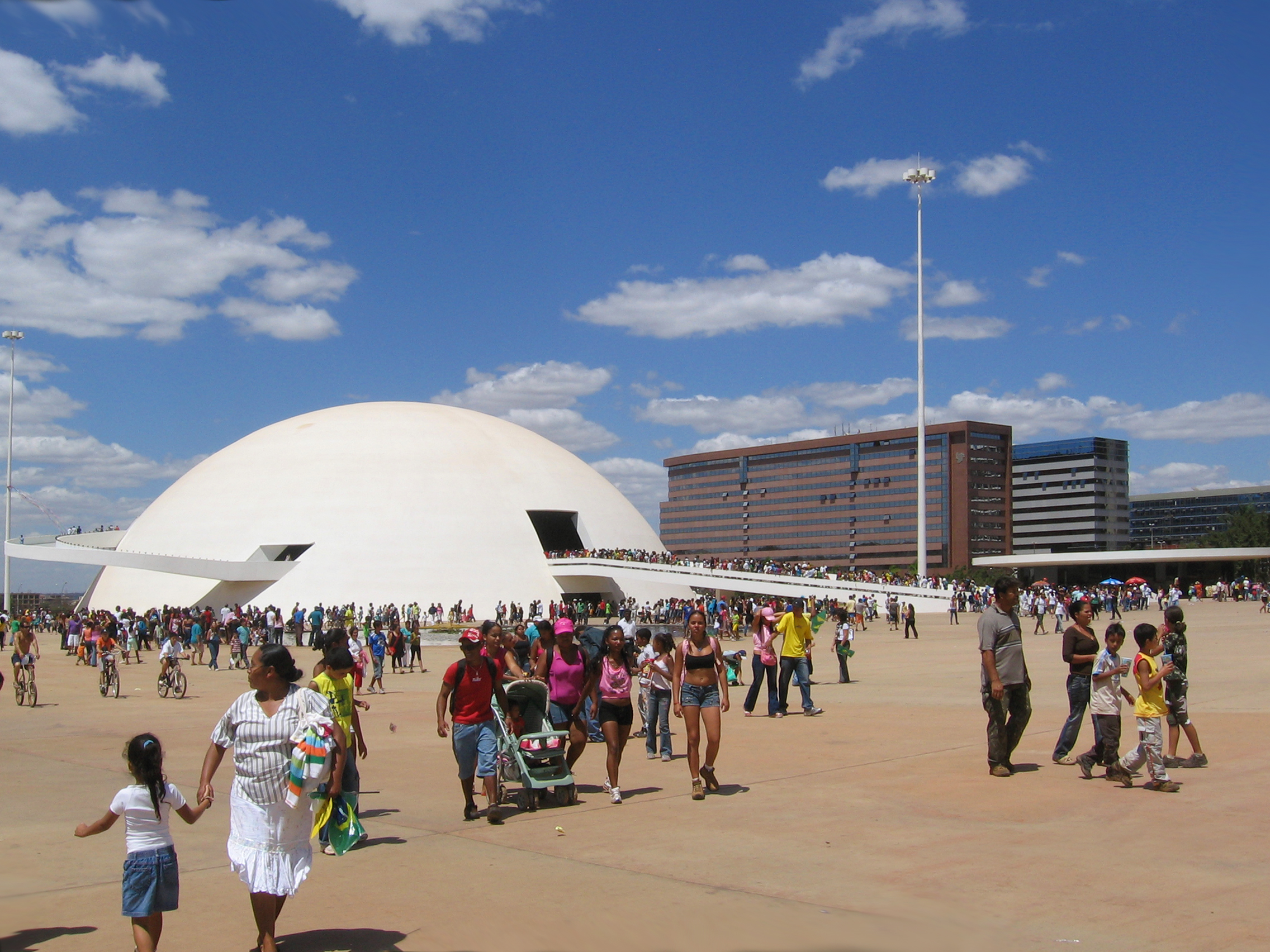 A view of the Brasilia National Library from the nearby bus station